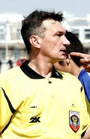 Valentin Ivanov in match between FC Zenit St. Petersburg and FC Rubin